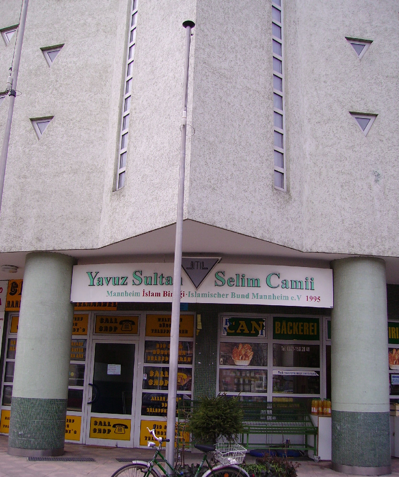 mosque of Mannheim in Germany